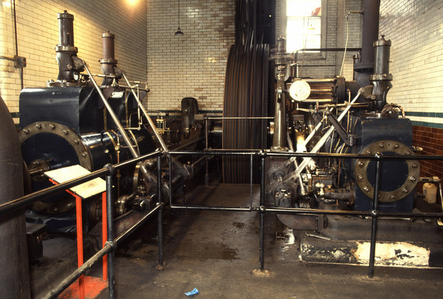 Coldharbour Mill steam engine A west country textile mill steam engine in situ is now unique. 1910 Pollit & Wigzell horizontal cross compound with rope drive. I saw this running commercially on two separate occasions around 1980 and 1981. It stopped in 1981 and is now preserved. Photographed running for a New Year steaming.